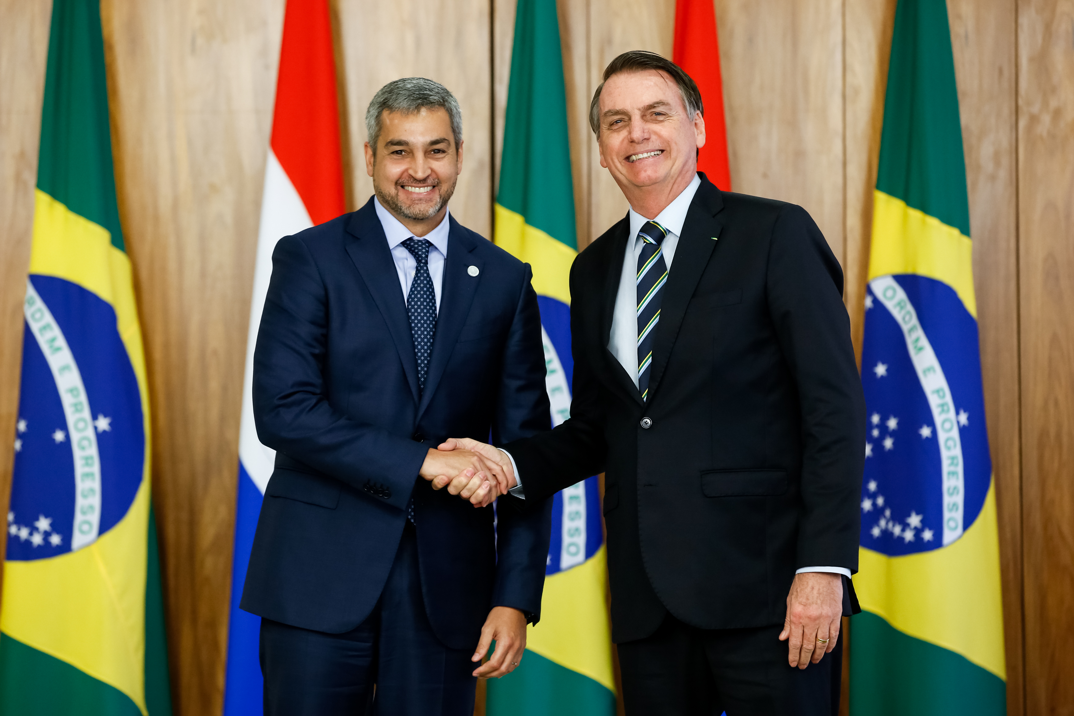 (Brasília - DF, 12/03/2019) Presidente da República, Jair Bolsonaro e o Presidente da República do Paraguai, Mario Abdo Benítez após Declaração à imprensa. Foto: Alan Santos/PR